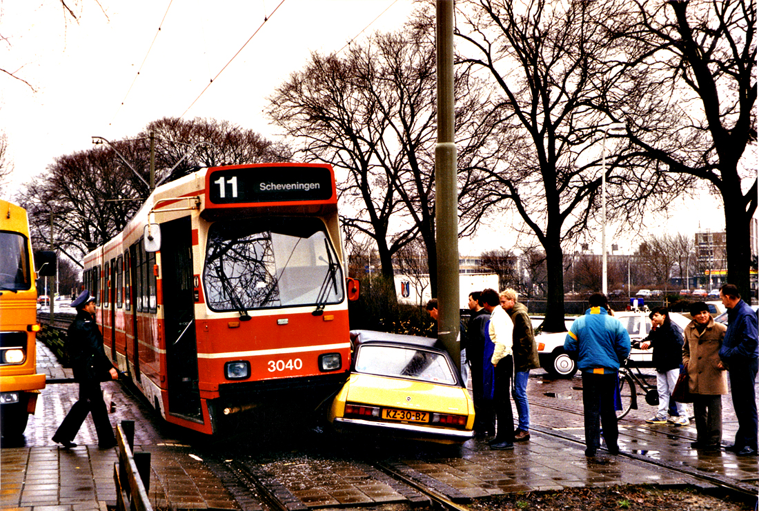 tram/car crash in Den Haag, the Netherlands